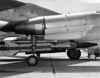 BOLD ORION (WS-199B) air-launched ballistic missile mounted on Boeing B-47 Stratojet launch aircraft.